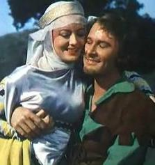 Cropped screenshot of Olivia de Havilland and Errol Flynn from the trailer for the film The Adventures of Robin Hood